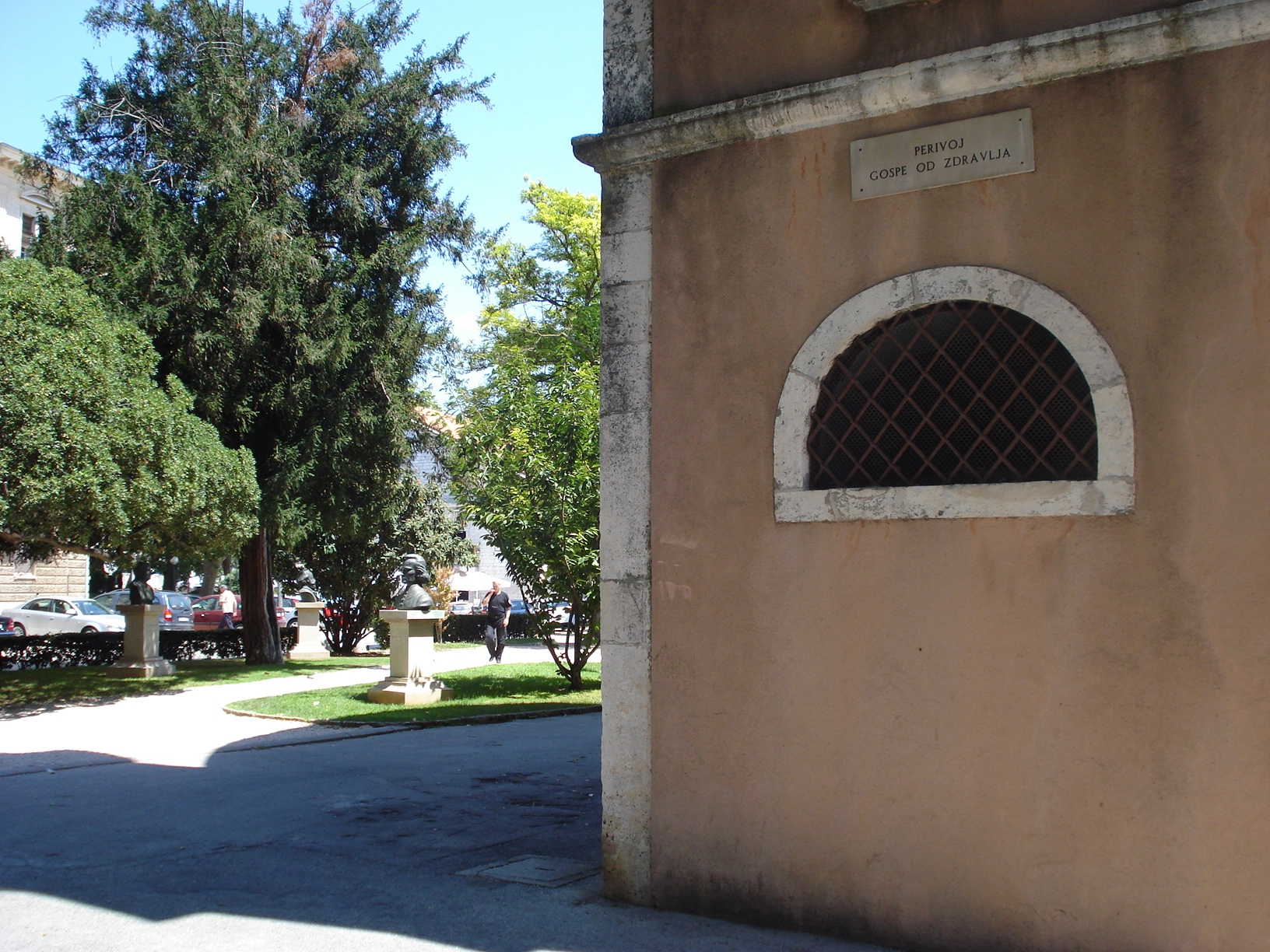 Our lady of Health Park in Zadar, Croatia